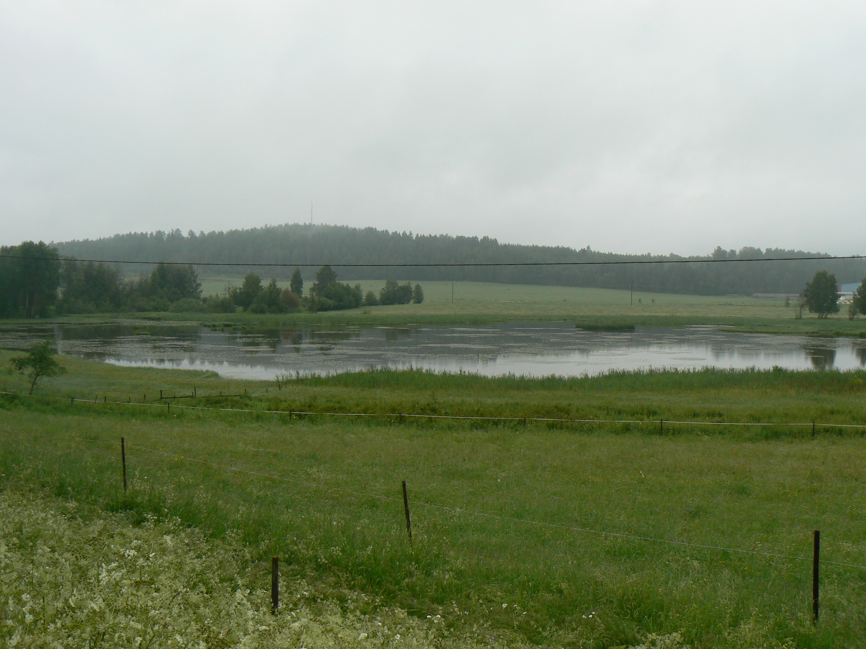 Uppbo tjärn, little lake in Säter Municipality, Sweden.